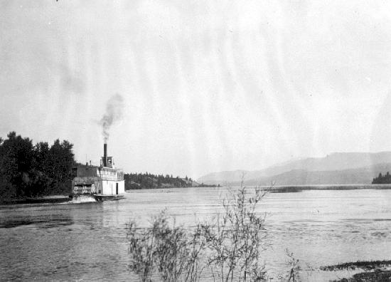 Isabella McCormack entering Windermere Lake, British Columbia, ca 1912. (The name of this vessel is sometimes seen as Isabelle McCormack).